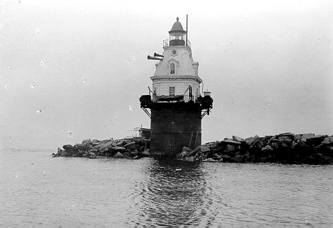 Southwest Ledge (New Haven Breakwater) Light (New Haven County, Connecticut)